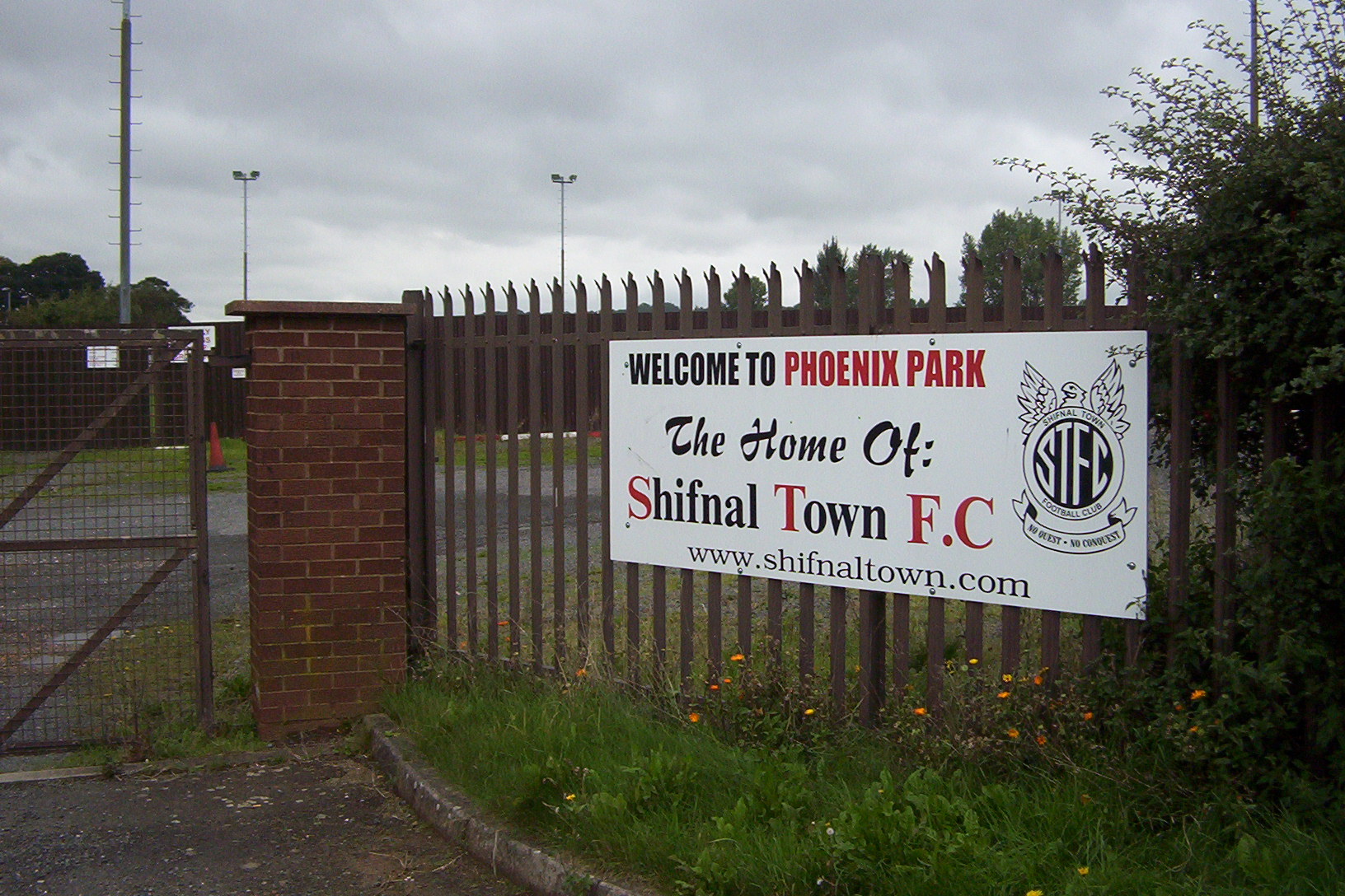 The home stadium of Shifnal Town F.C., photographed by myself on 7 September 2008